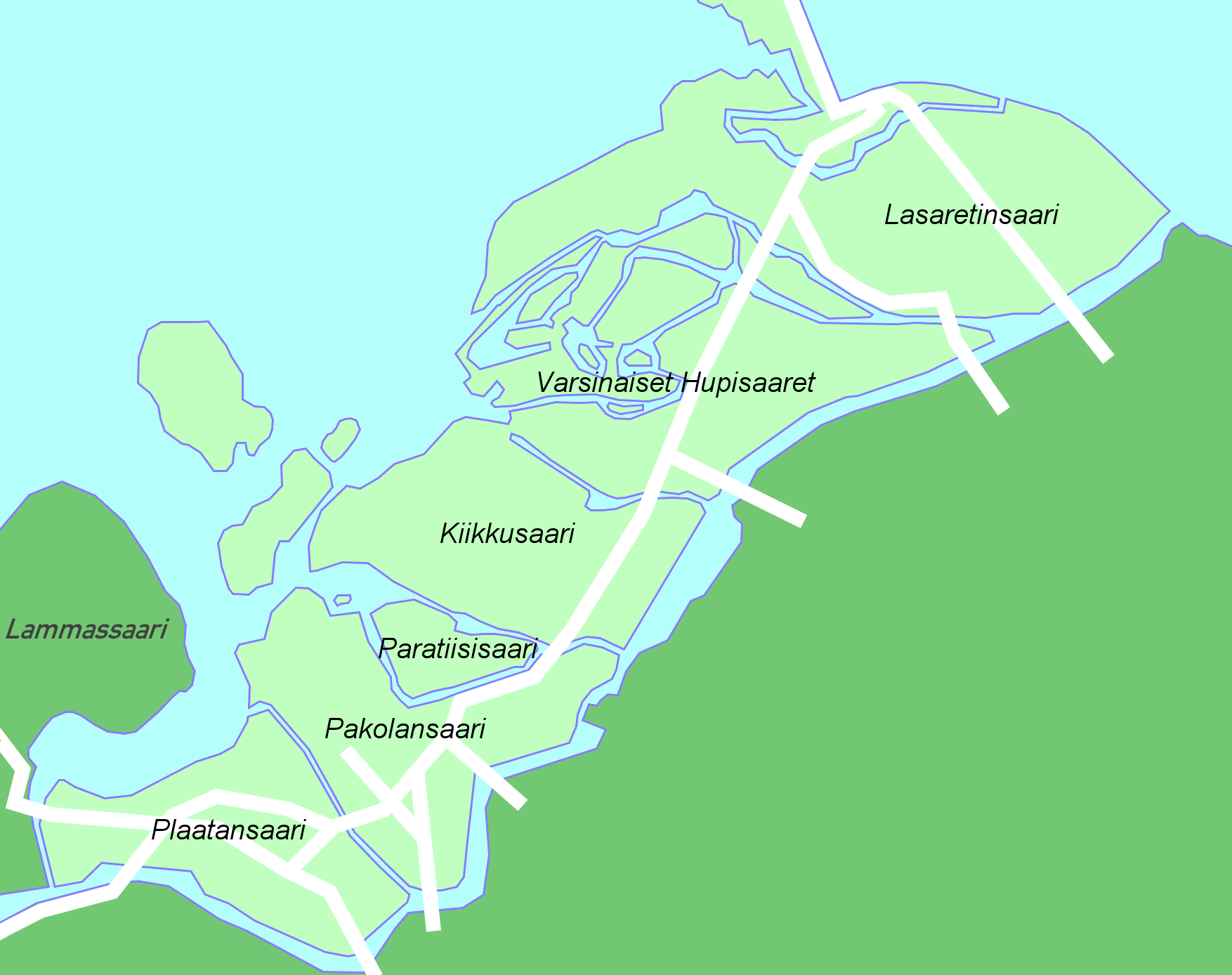 Map of Oulu, Finland showing the general area of Hupisaaret City Park (Text in Finnish).